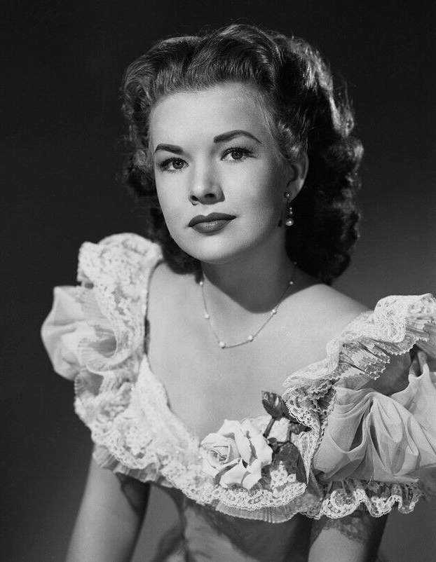 Depicted person: Gale Storm – American actress, singer